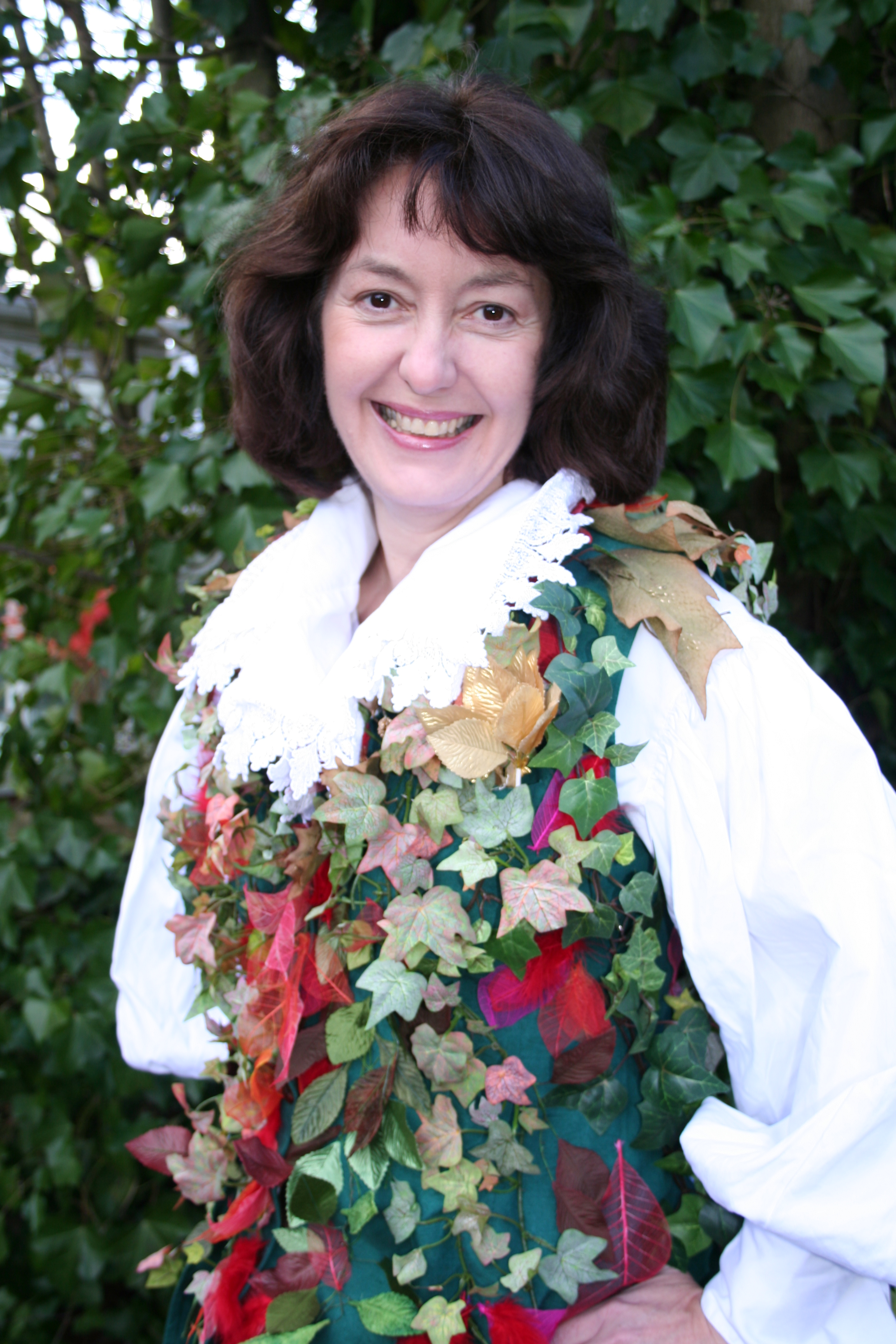 Depicted person: Geraldine McCaughrean – British children's writer